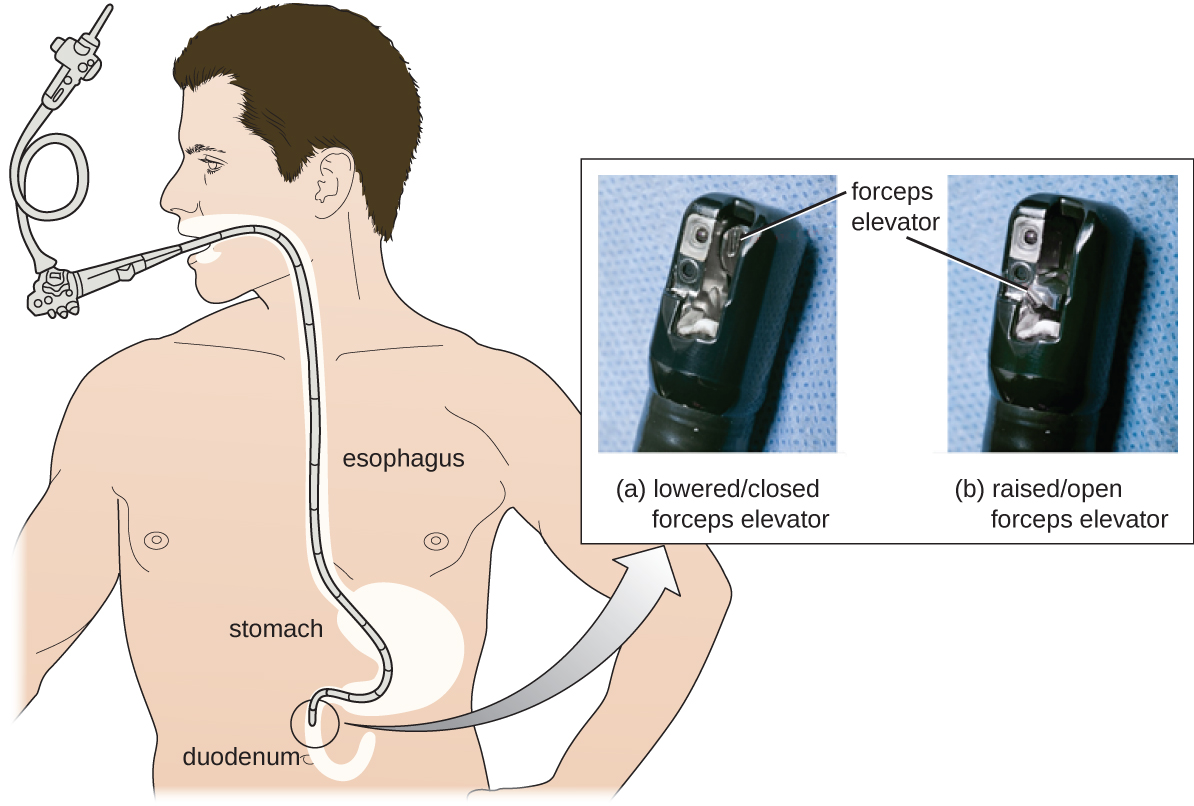 Name: Microbiology ID: Language: English Summary: Subjects: Science and Technology Keywords: Print Style: License: Creative Commons Attribution License (by 4.0) Authors: OpenStax Microbiology Copyright Holders: OpenStax Microbiology Publishers: OpenStax Microbiology Latest Version: 4.4 First Publication Date: Oct 17, 2016 Latest Revision: Nov 11, 2016 Last Edited By: OpenStax Microbiology